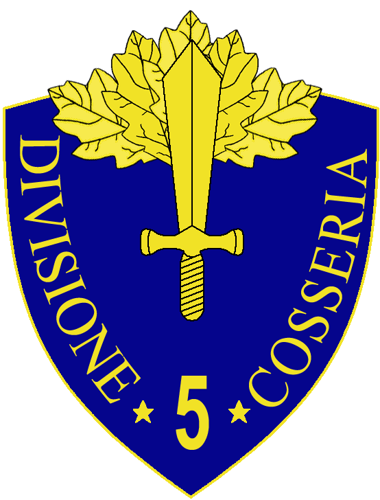 5th Italian Infantry Division "Cosseria" Coat of Arms (WWII)